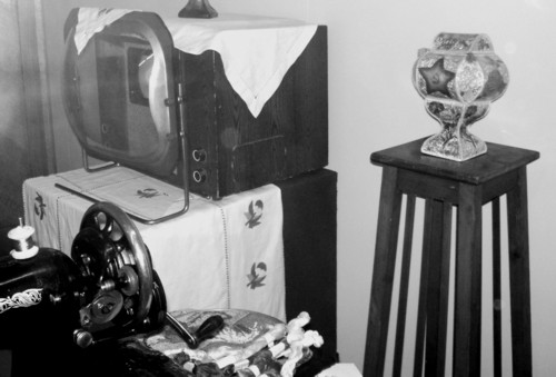 Reconstruction of a typical 1950s Soviet living room, complete with a vintage TV set (KVN-49) and a sewing machine. Moscow State Historical Museum, 2007.